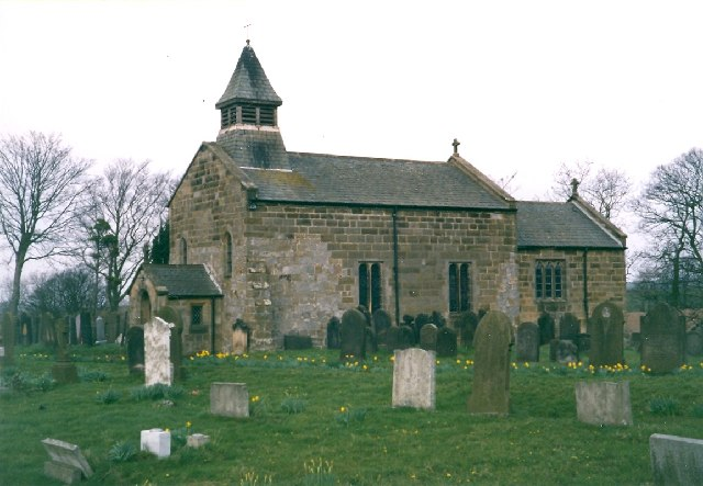 Liverton Church. St Michael's Church is in a valley amongst fields below the village, with access by footpath. It was restored in 1902-3, but retains a Norman chancel-arch of three orders with carved capitals and voussior blocks.